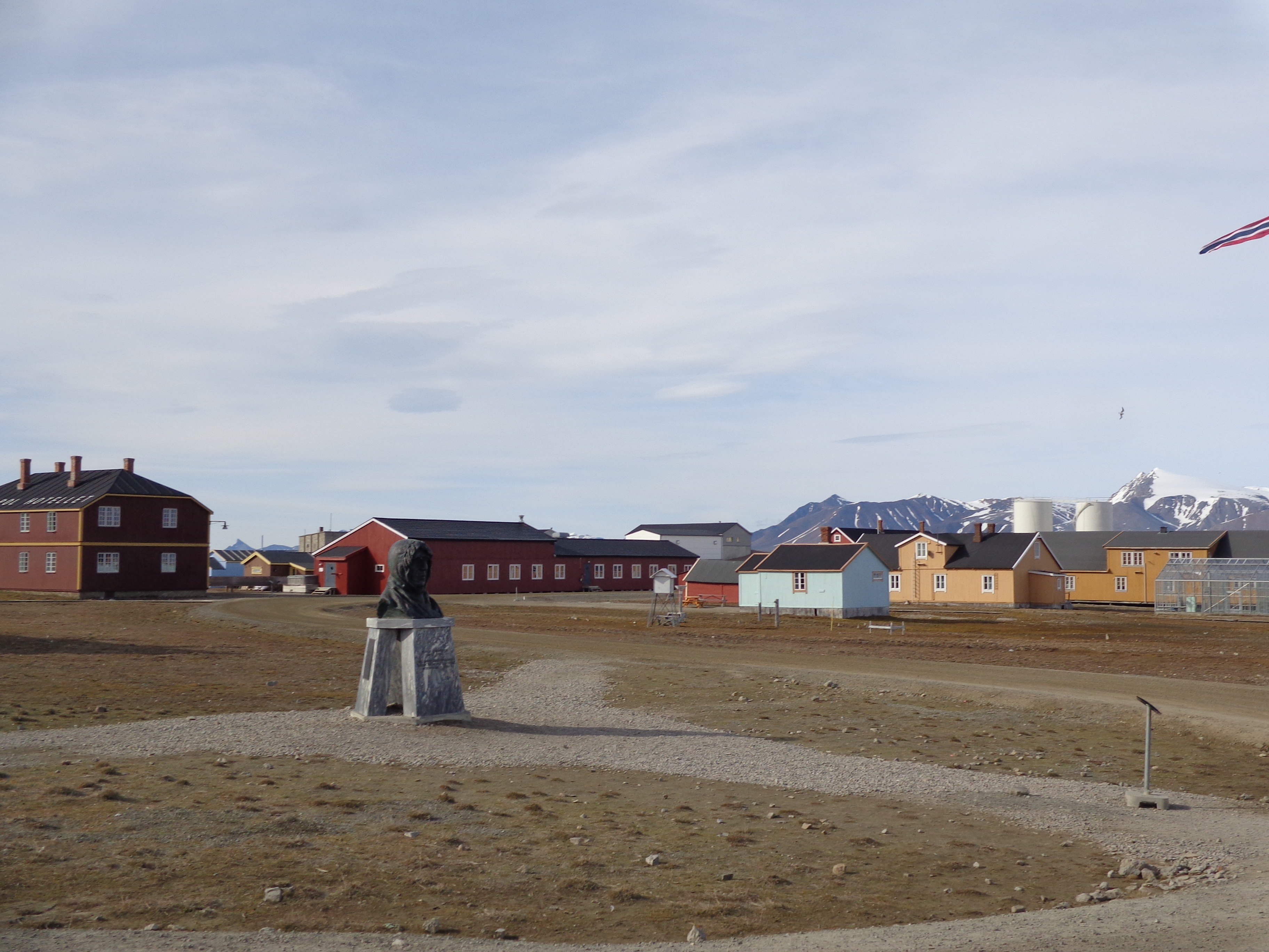 Ny-Ålesund, Svalbard